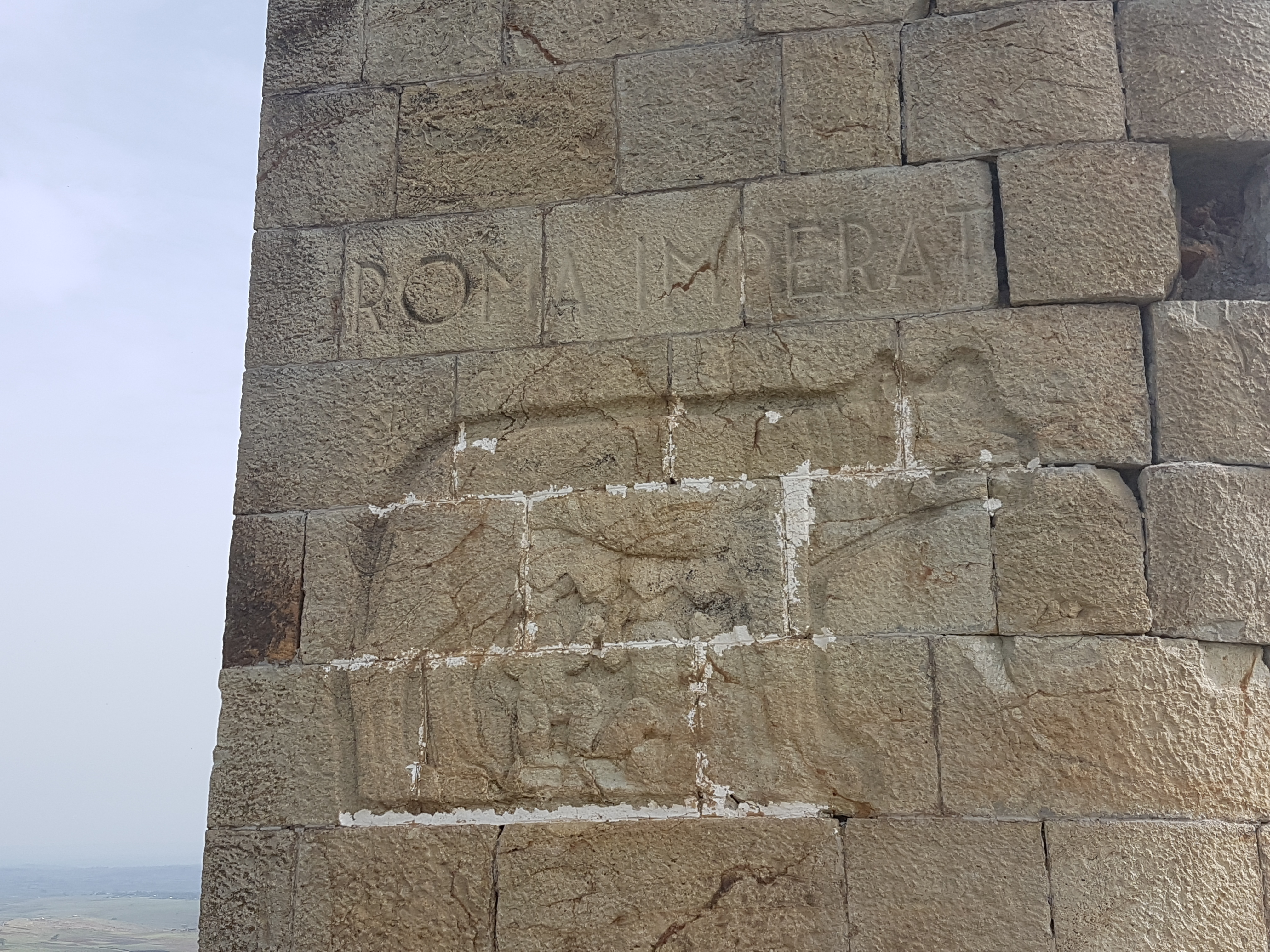 Gorgora Fascist Monument, also known as "Mussolini's Stele" - South (July 2018)